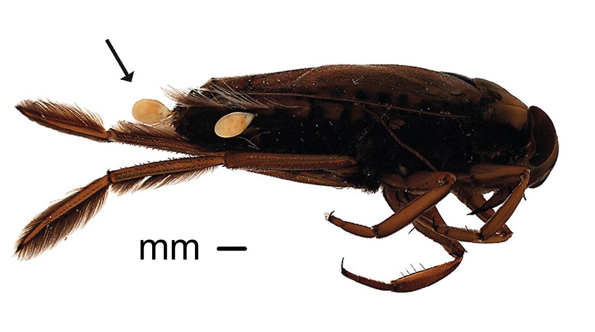 Water Mite